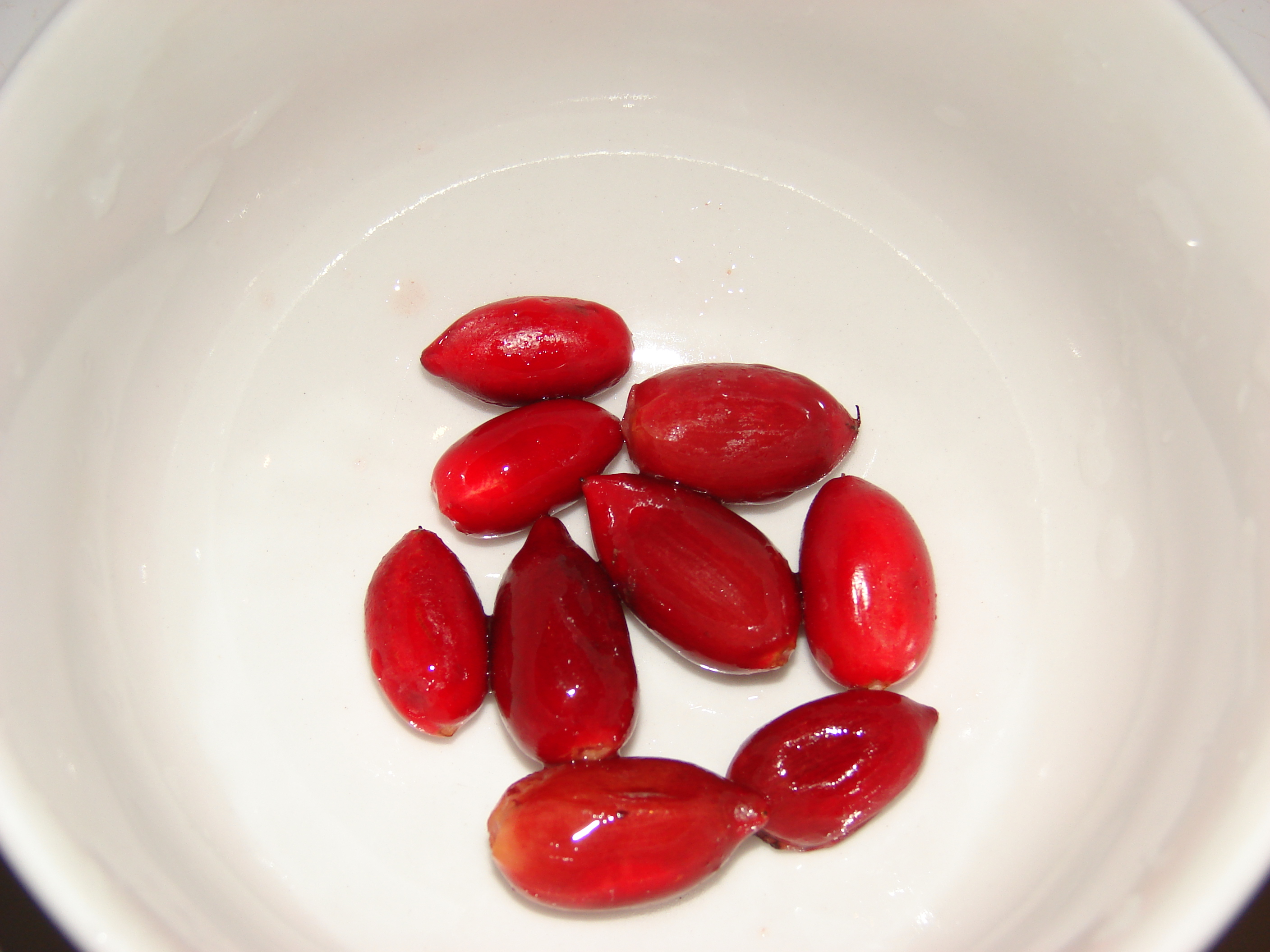 Synsepalum dulcificum (seeds). Location: Maui, Makawao